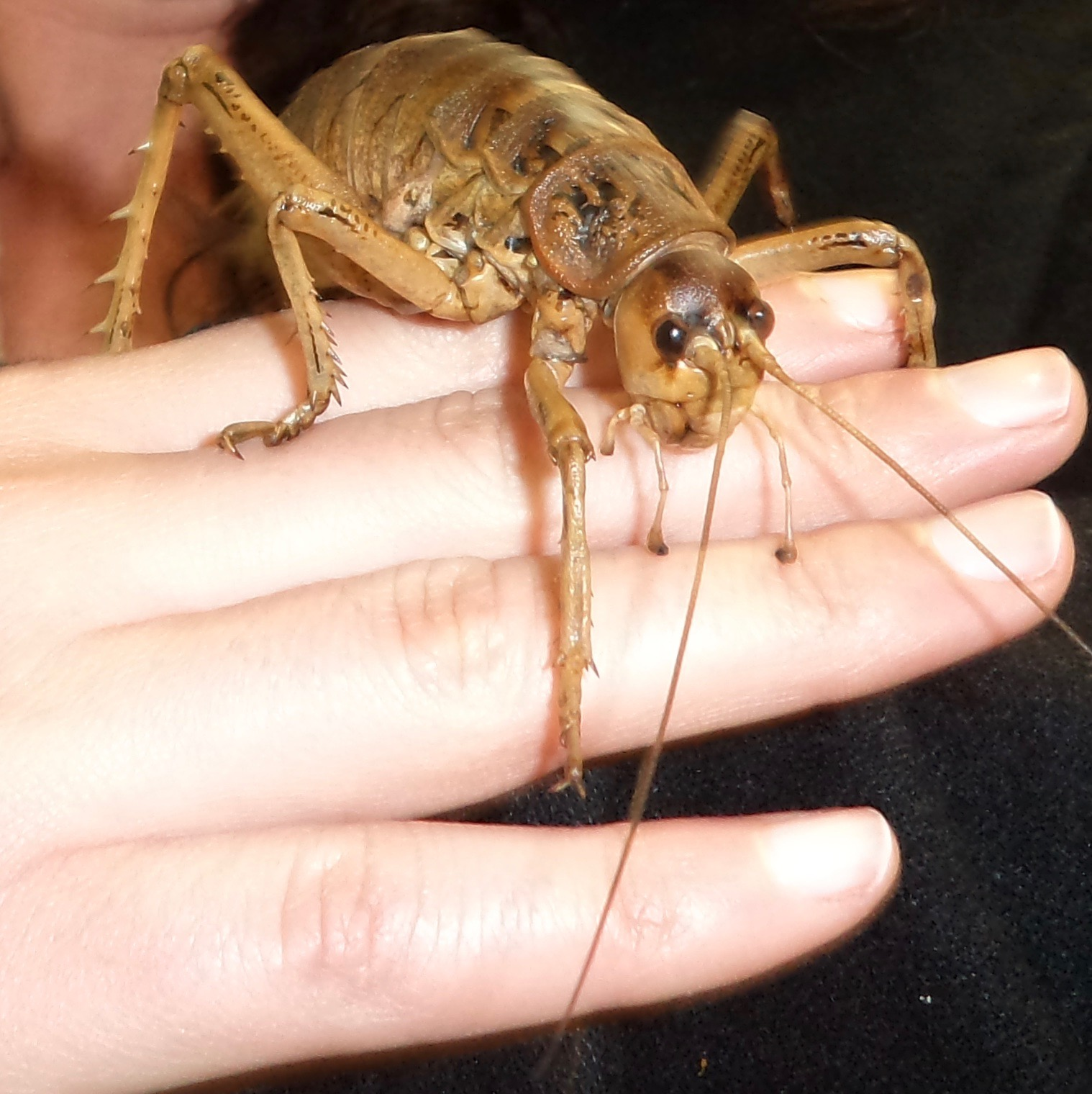 Giant weta, Deinacrida rugosa adult female from Mana Island, New Zealand (on hand for scale)